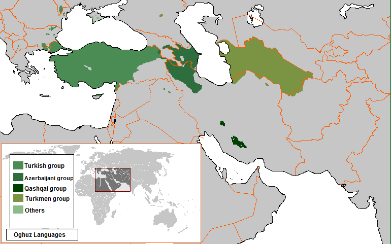 Map of the Oghuz Languages in Central Asia, Southwest Asia, and Eastern Europe